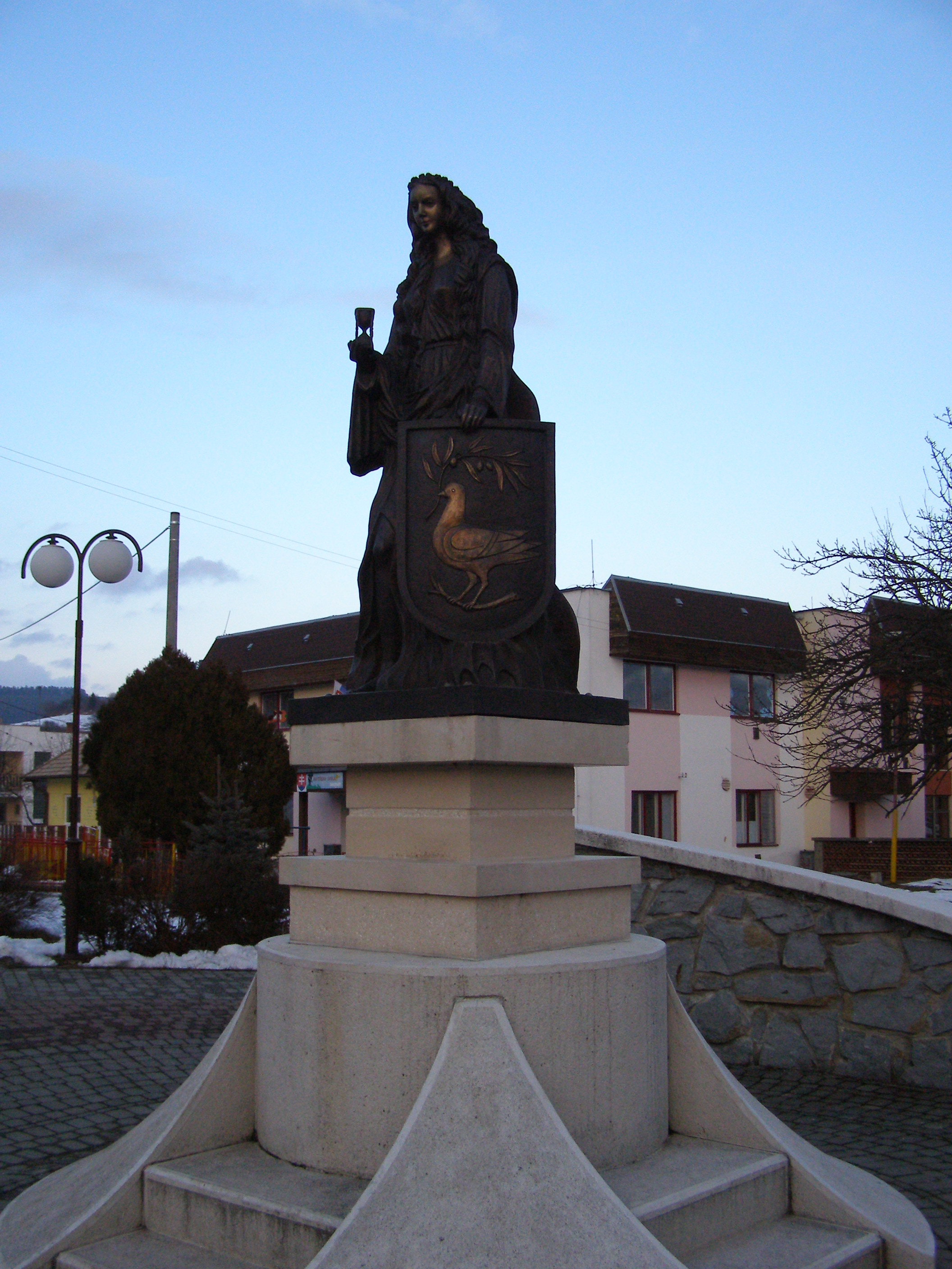 A momunent in the main square of the village Danišovce in Slovakia